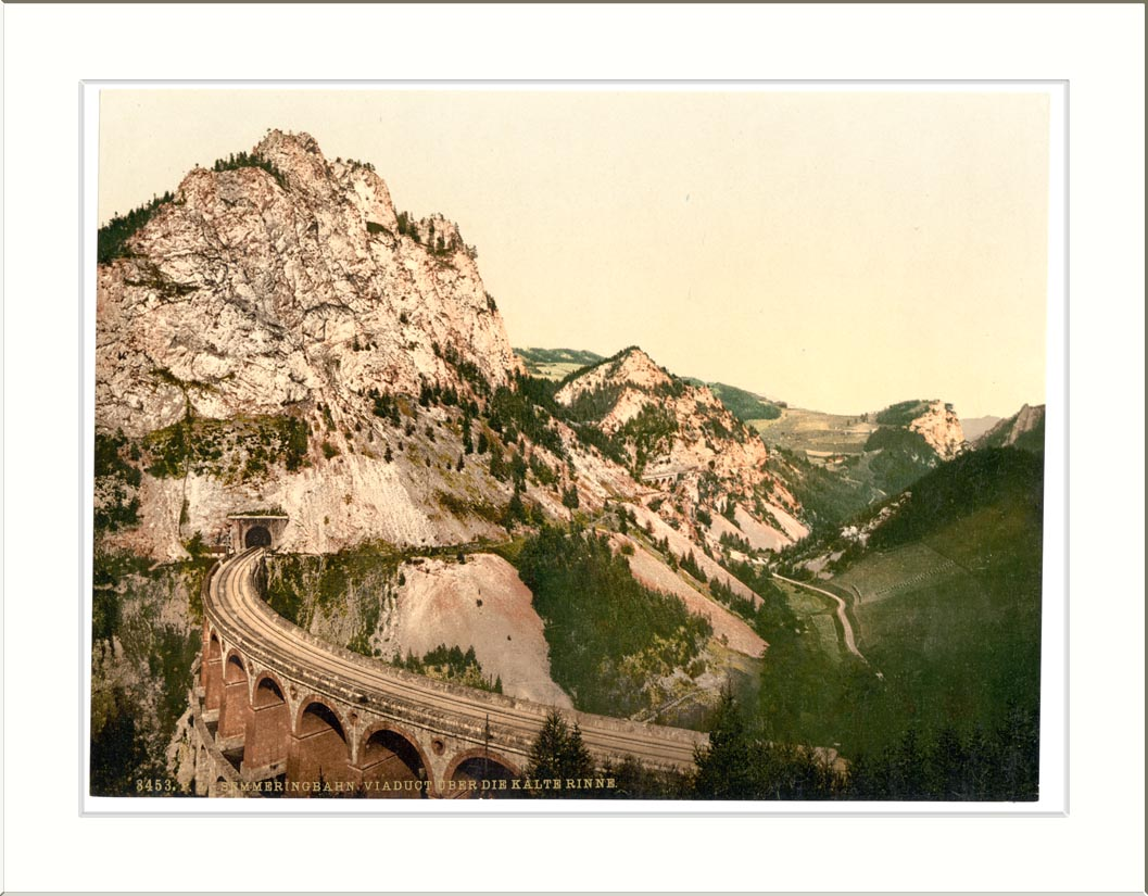 Semmering Railway viaduct over the Kalte Rinne Styria Austro-Hungary